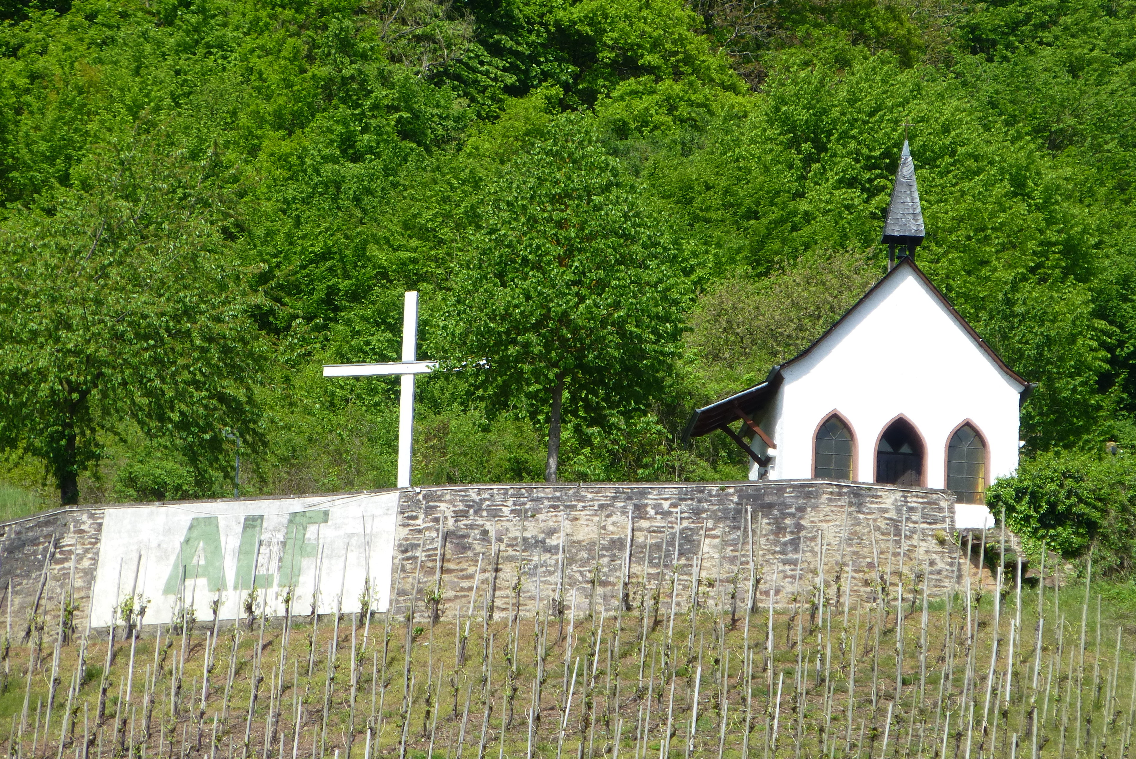 mountain chapel, Alf (view from Southeast)